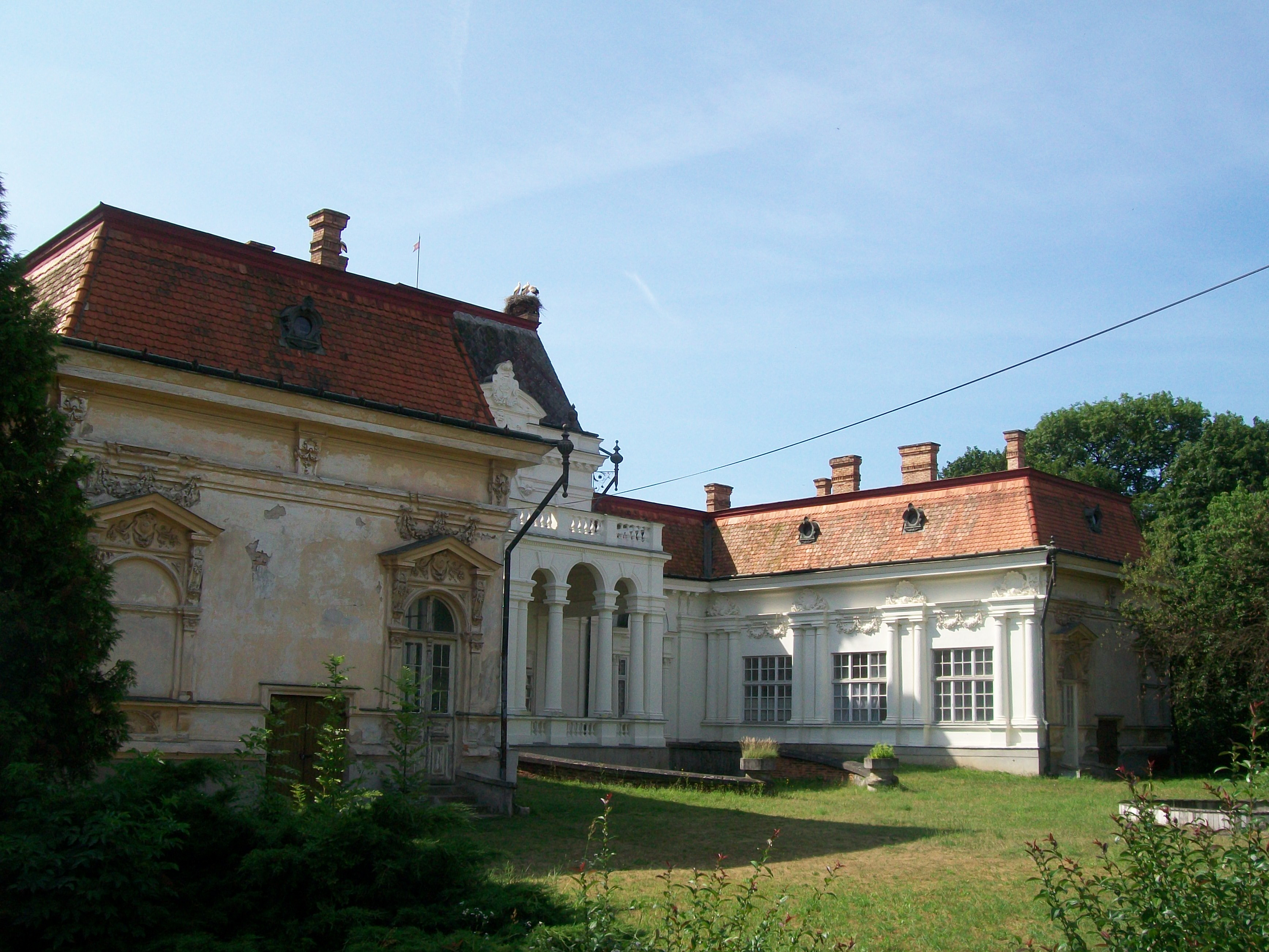 Mansion in PodrečanySlovenčina: Kaštieľ v Podrečanoch